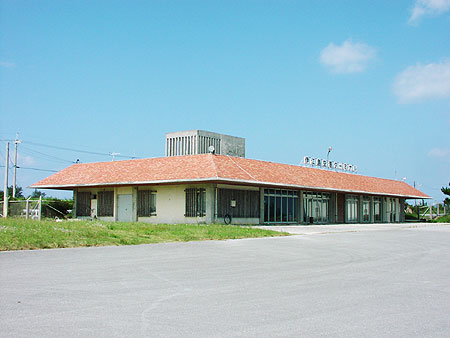 Iejima Airport Terminal